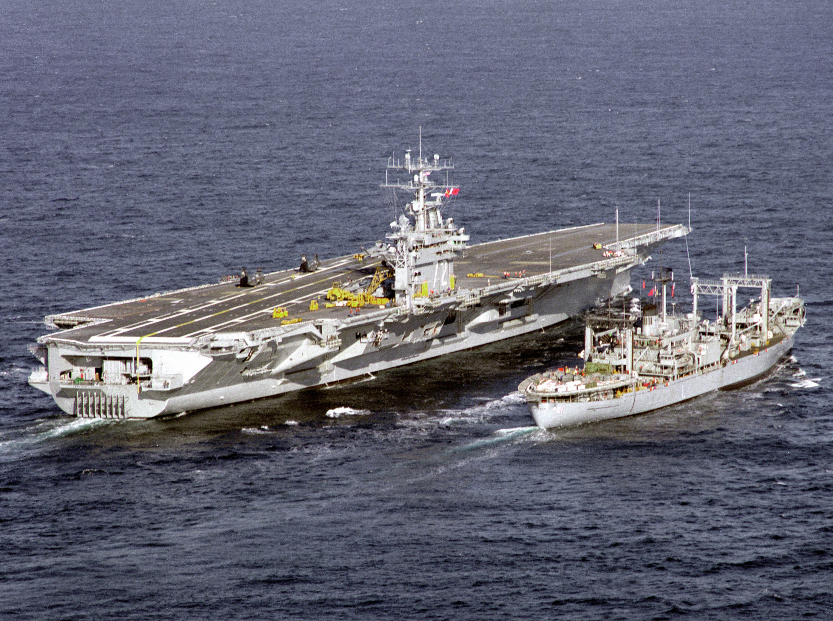 The U.S. Navy ammunition ship USS Suribachi (AE-21) and the aircraft carrier USS Abraham Lincoln (CVN-72) side by side during the carrier's first underway replenishment.